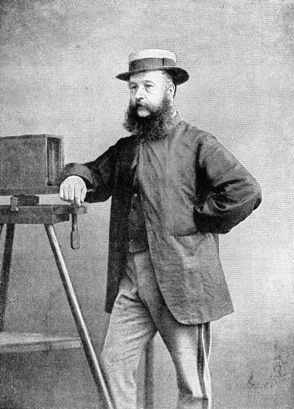 William Augustus Leggo, inventor of the "Leggotype" or "Photo-electrotype" process. 1871 / Montreal, Quebec — 1 item — 4.9 x 6.7 in.